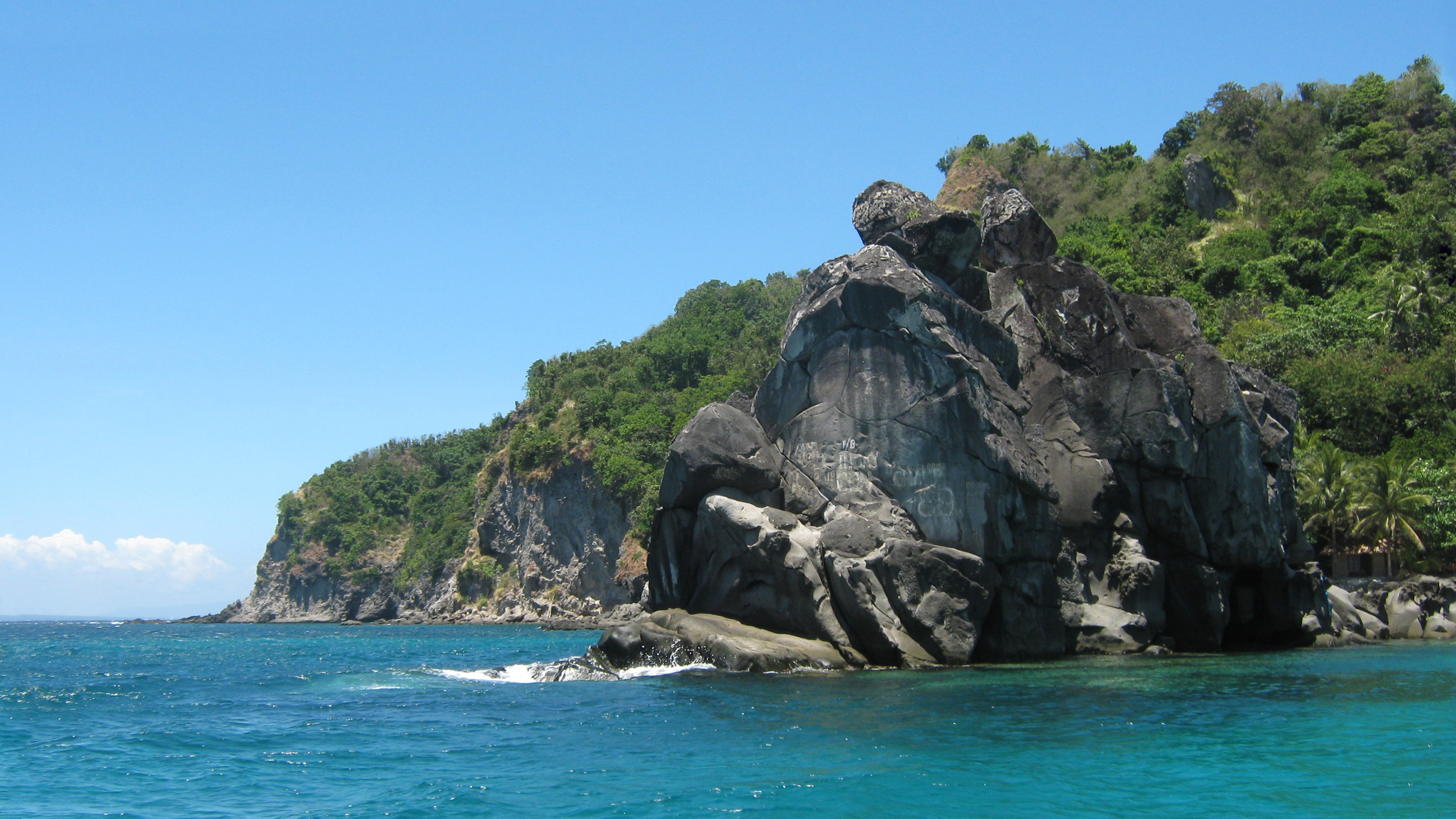 Rock formations near the boat landing area on the west side of Apo Island, Philippines.